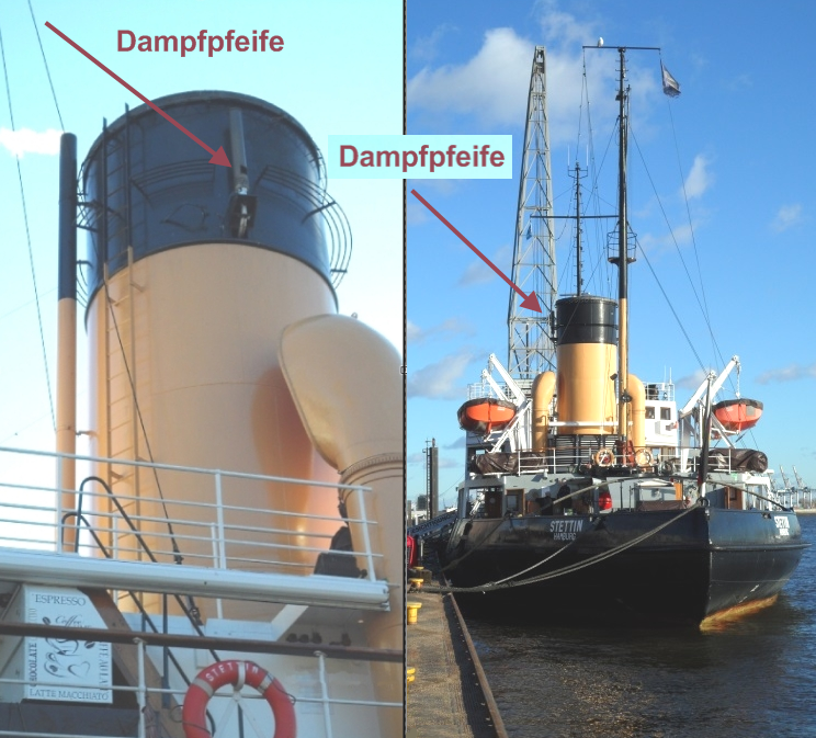 Steam whistle at the stack port side of the icebreaker Stettin